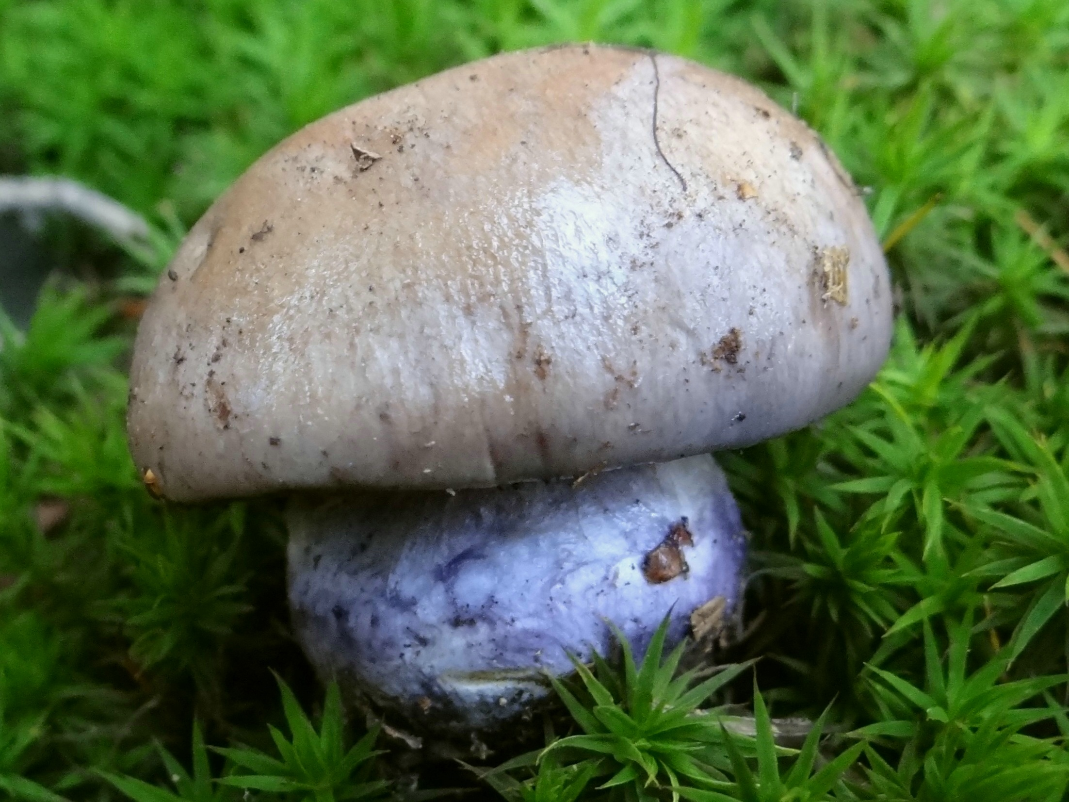 Cortinarius cyanites.